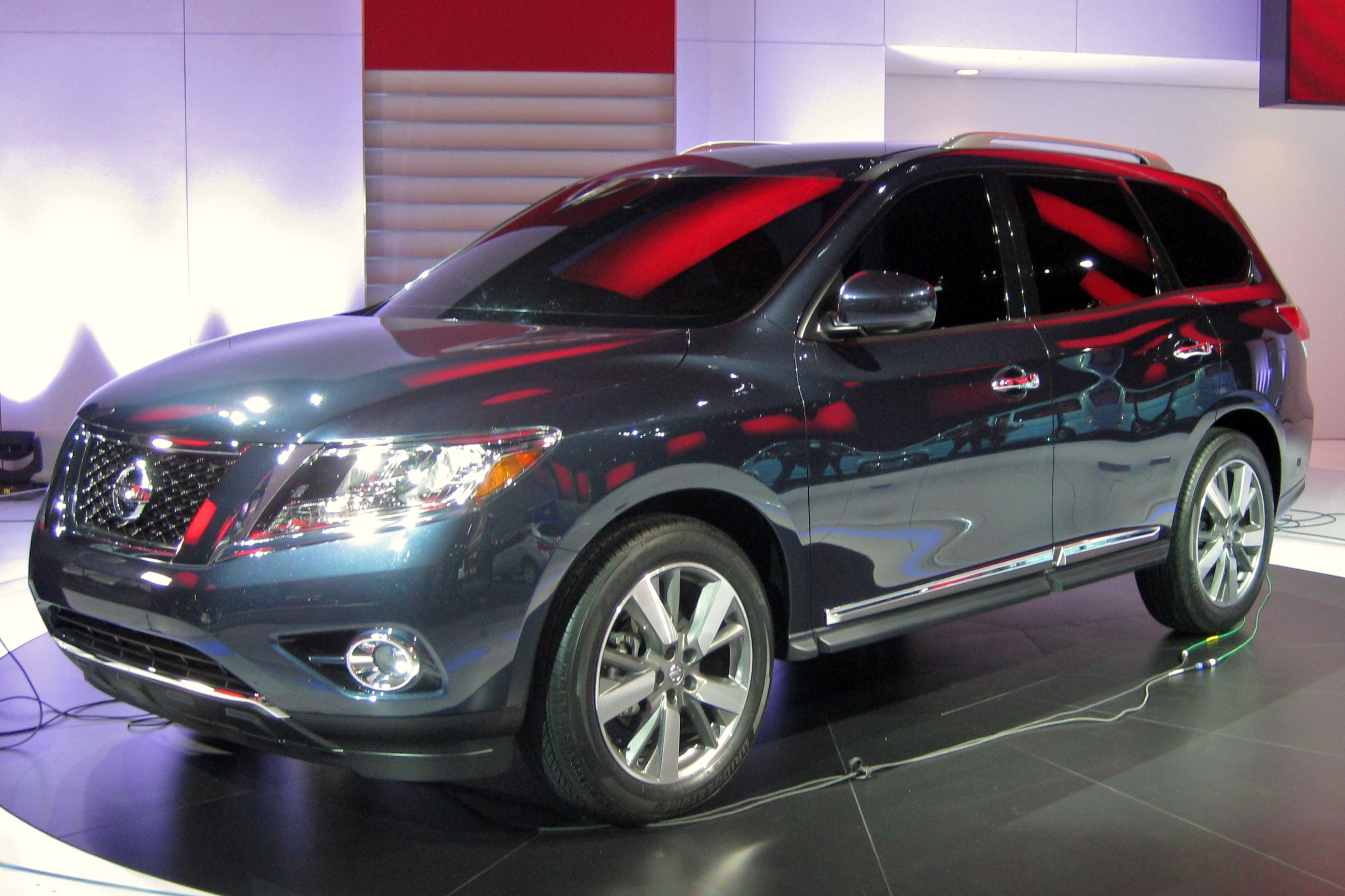 For more info and images please check